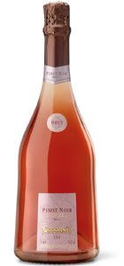 Cava Codorniu Rose